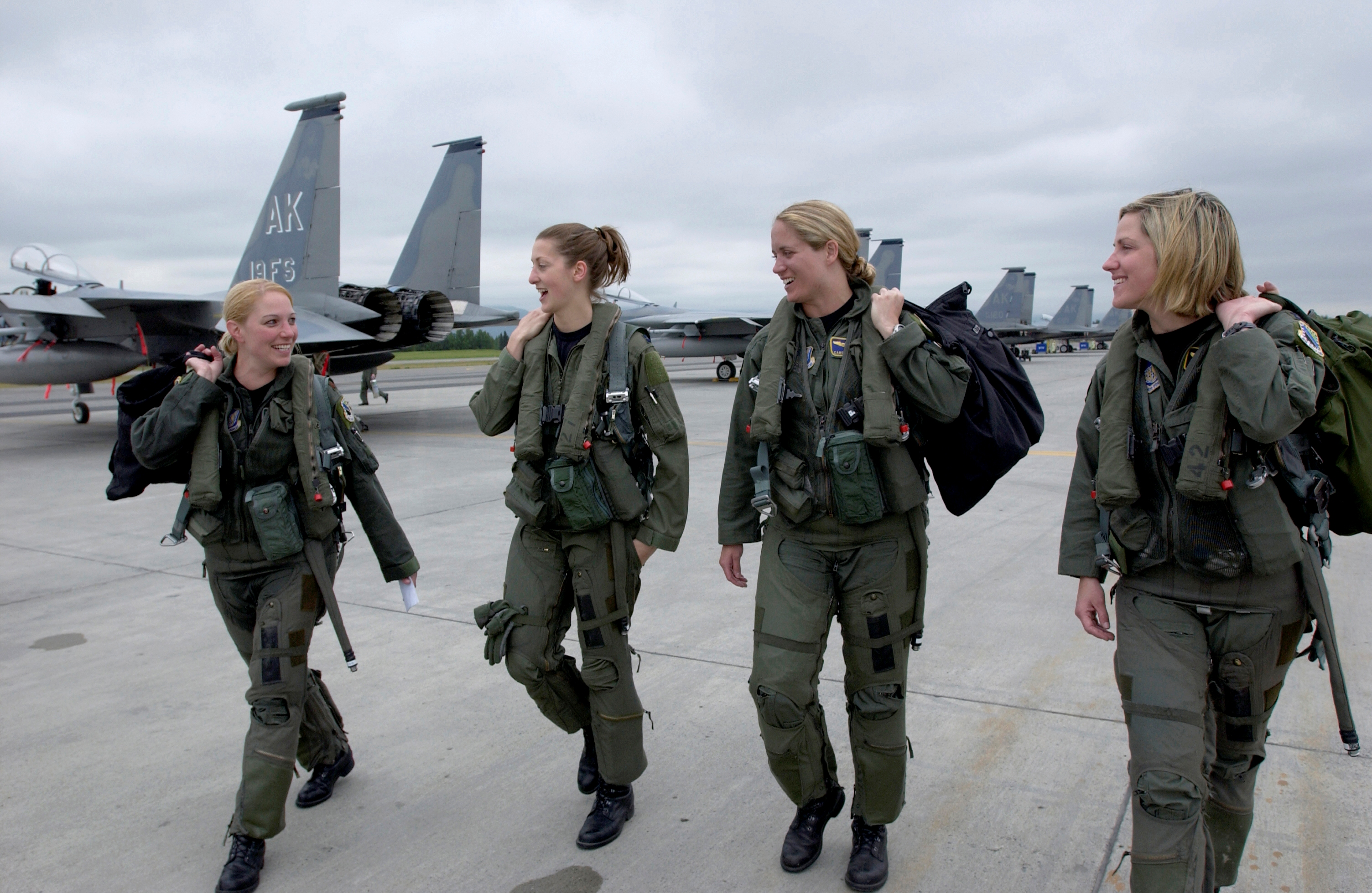 F-15 Eagle female pilots from the 3rd Wing walking to their jets at Elmendorf Air Force Base, Alaska. From left: Maj. Andrea Misener, Capt. Jammie Jamieson, Maj. Carey Jones and Capt. Samantha Weeks.